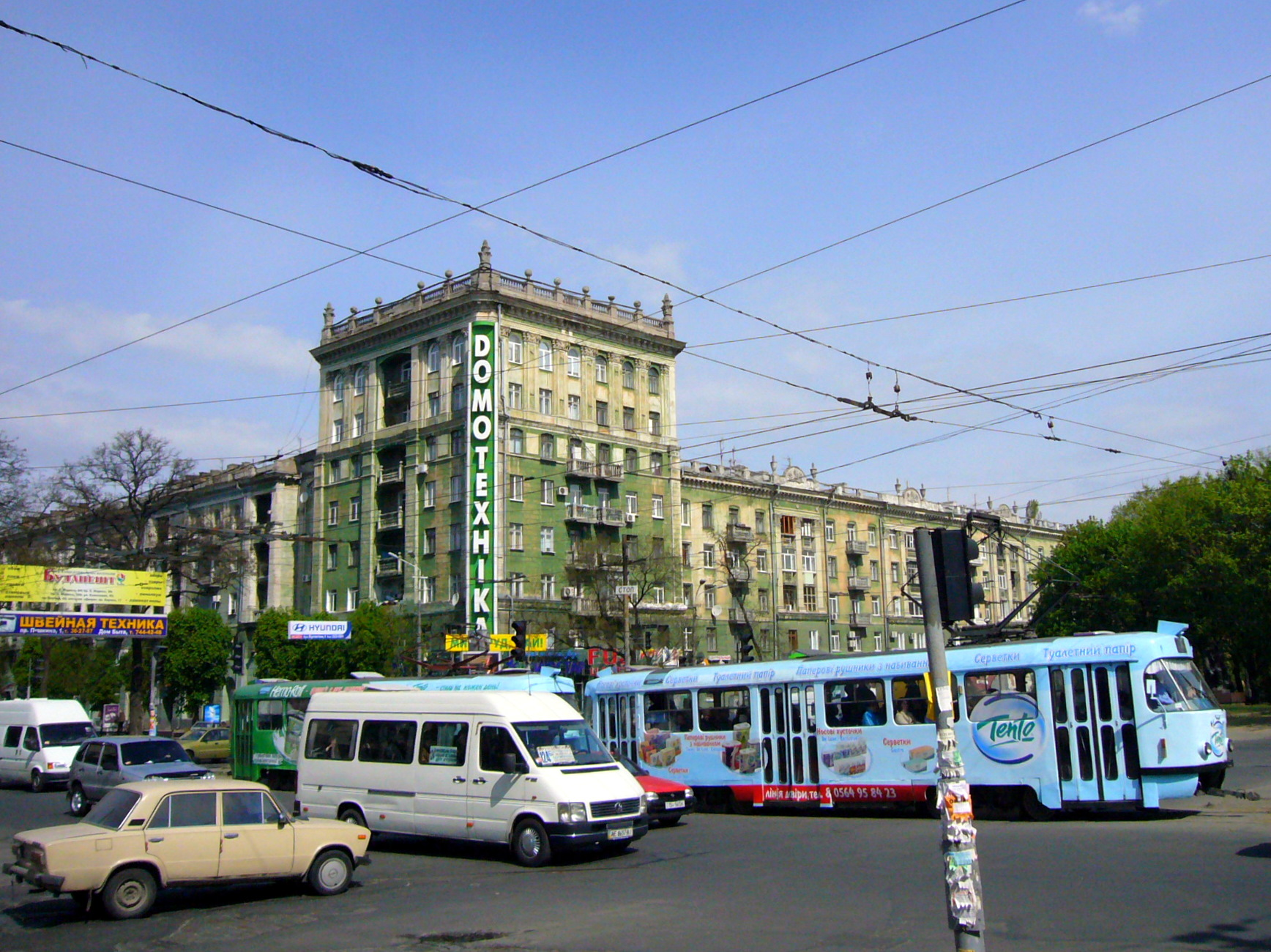 A building in Karl Marx Avenue in Dnipropetrovsk, Ukraine